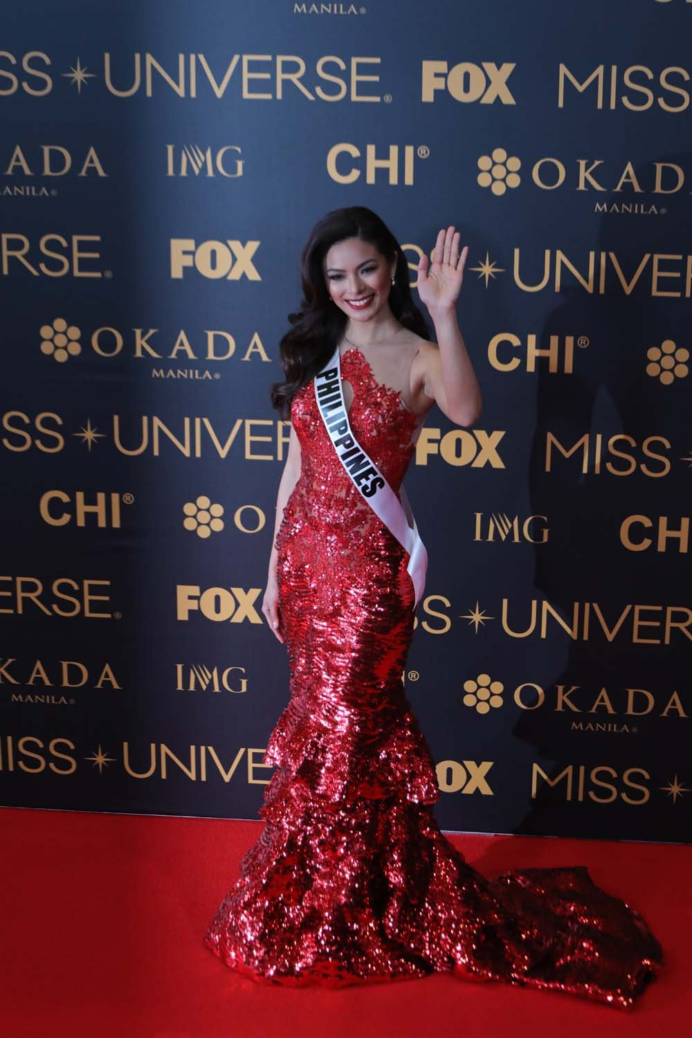 Miss Universe Philippines Maxine Medina waves to media during the Miss Universe Red Carpet event on Sunday evening (Jan.30, 2017) at the SMX Convention Center in Pasay City. (PNA photo by Avito C.Dalan)